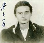 This is a photo of Maria Agatha Franziska von Trapp from her naturalization application, found on